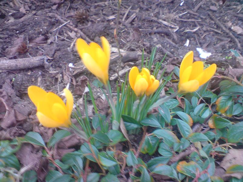 Crocus chrysanthus flowers in Kew Gardens, England.